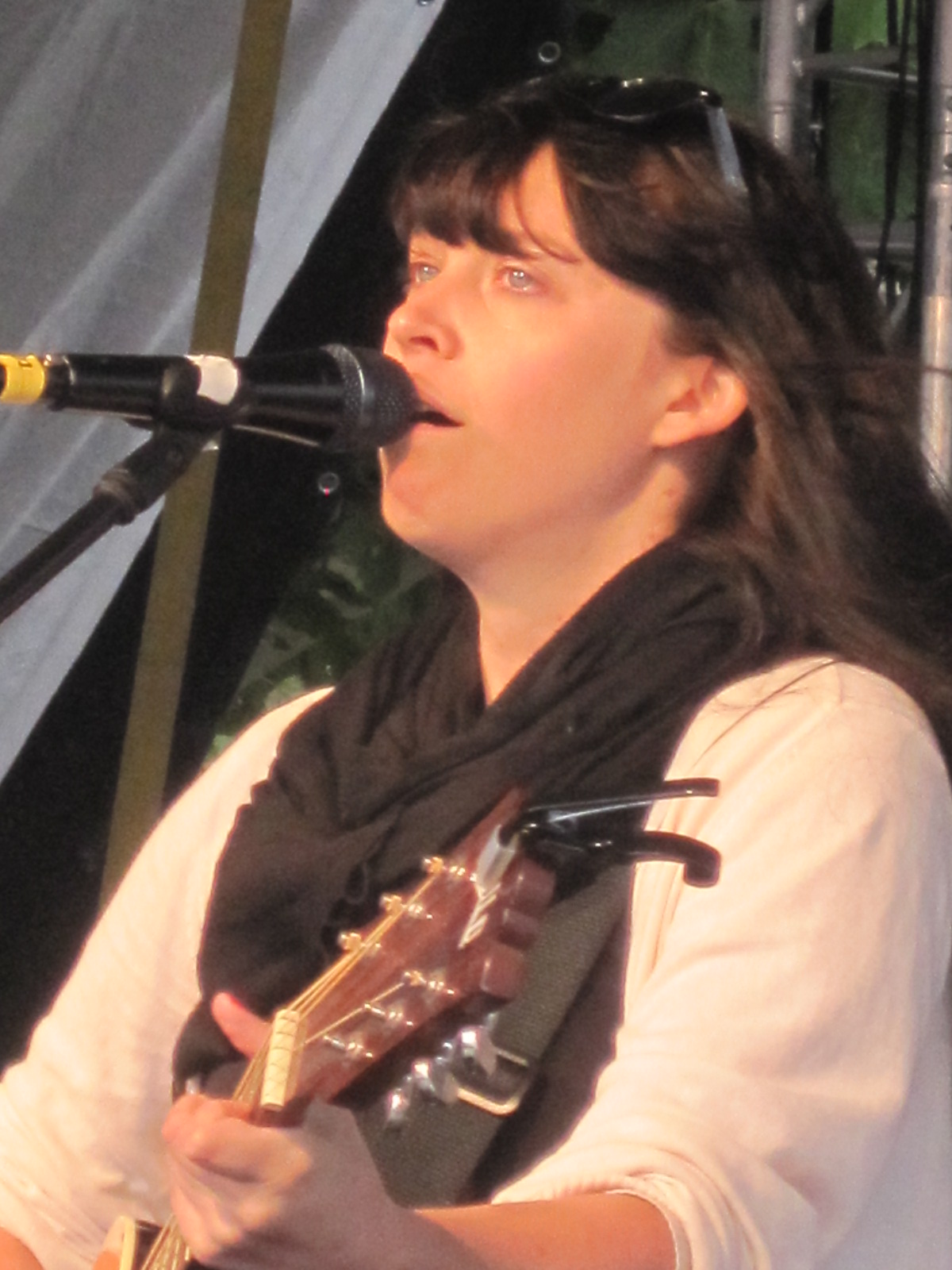 Flip Grater, New Zealand singer-songwriter